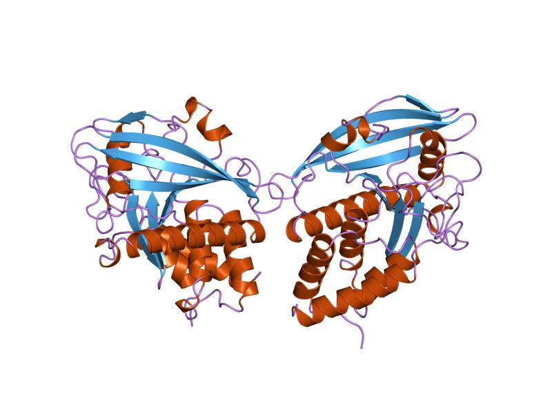 Cartoon representation of the molecular structure of protein registered with 1ypt code.